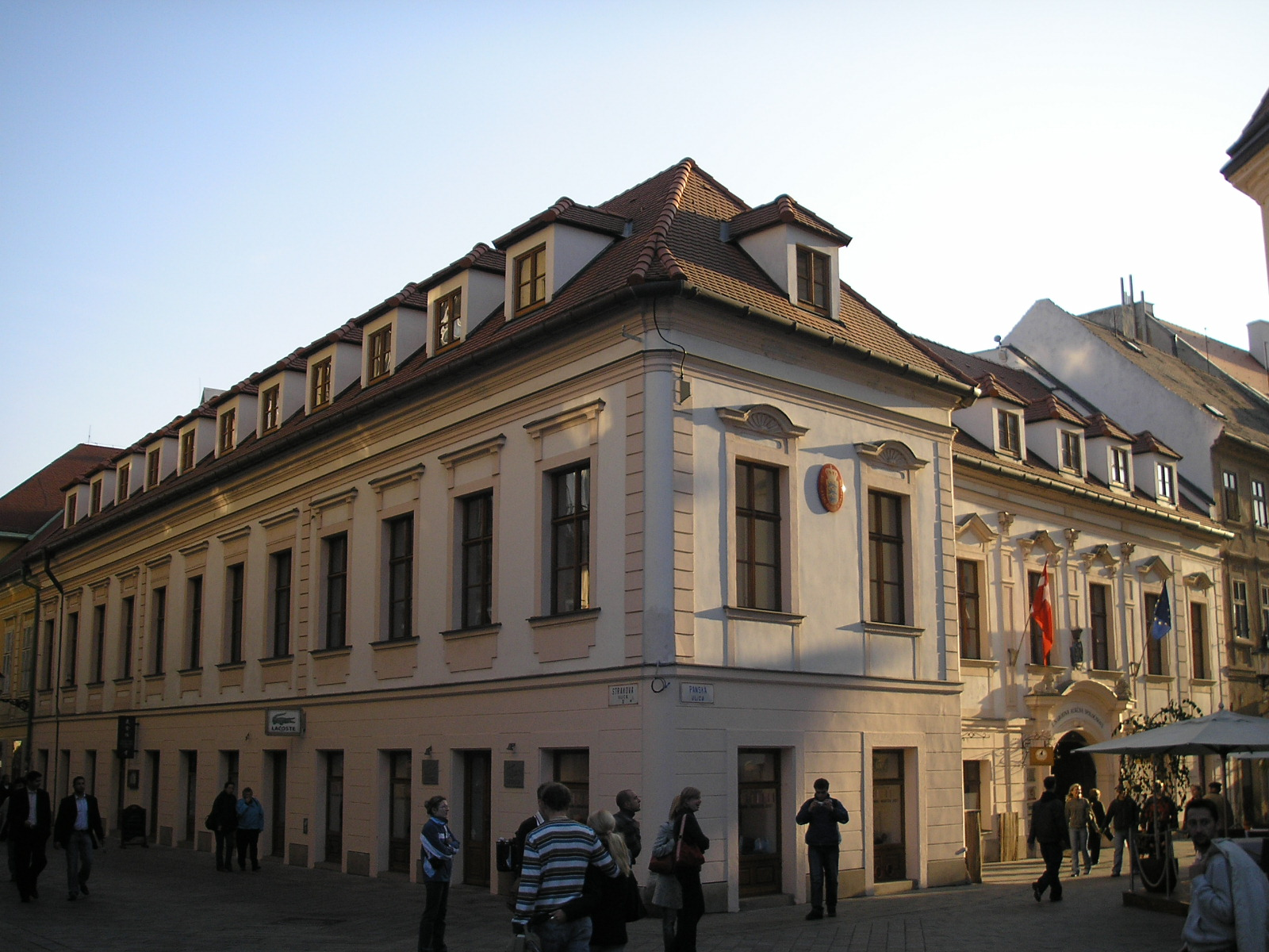 Royal Danish Embassy in Bratislava. This medium shows the protected monument with the number 101-145/0 in the Slovak Republic.